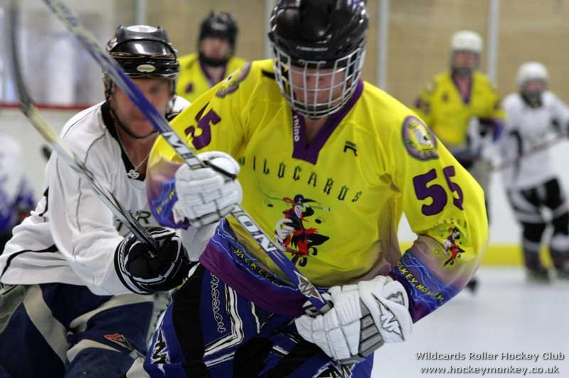 Wildcards Roller Hockey Club